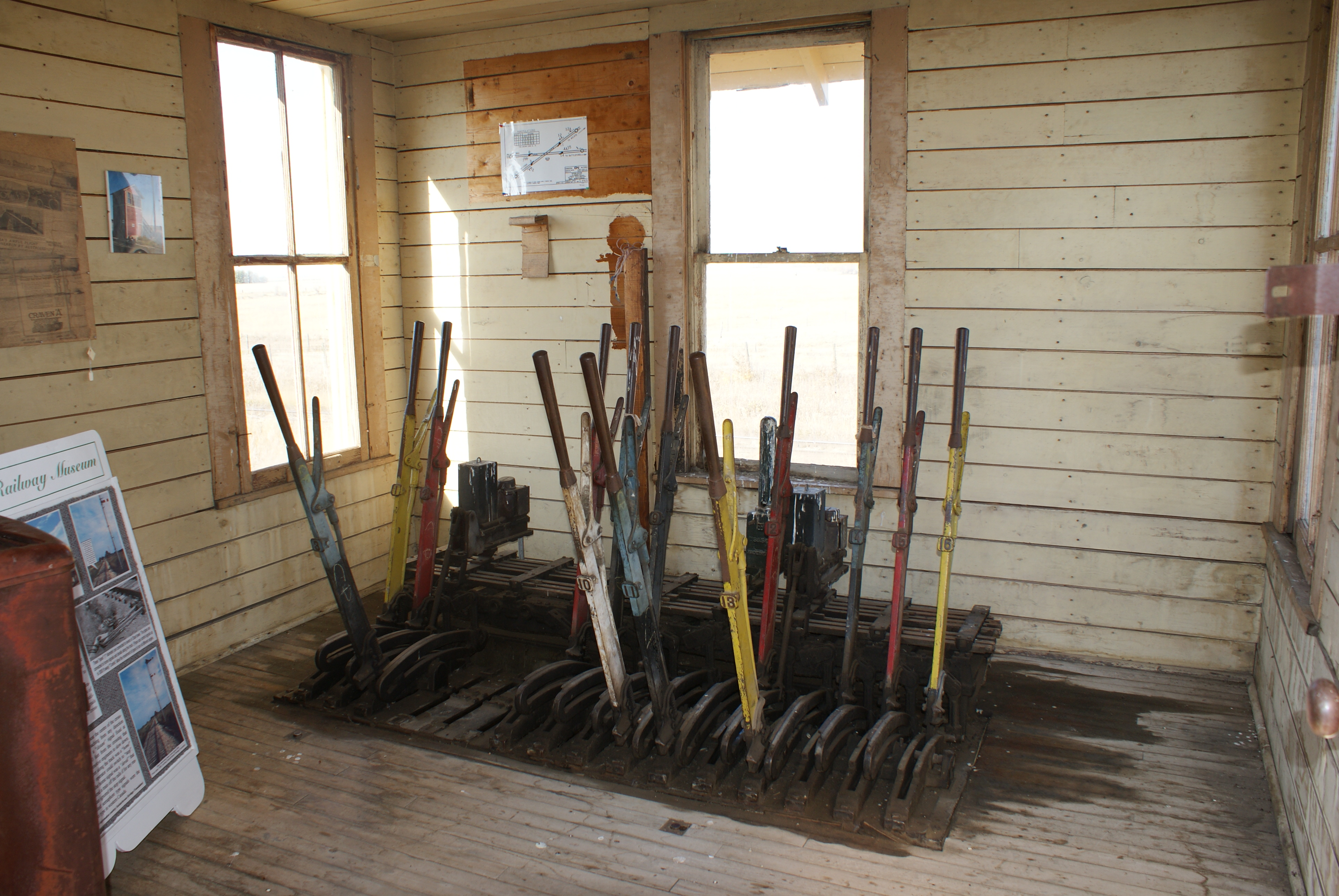 Lever frame in the Interlocking Oban tower at the Saskatchewan Railway Museum